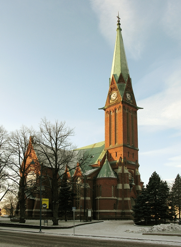 Kotka Church in Kotka, Finland.